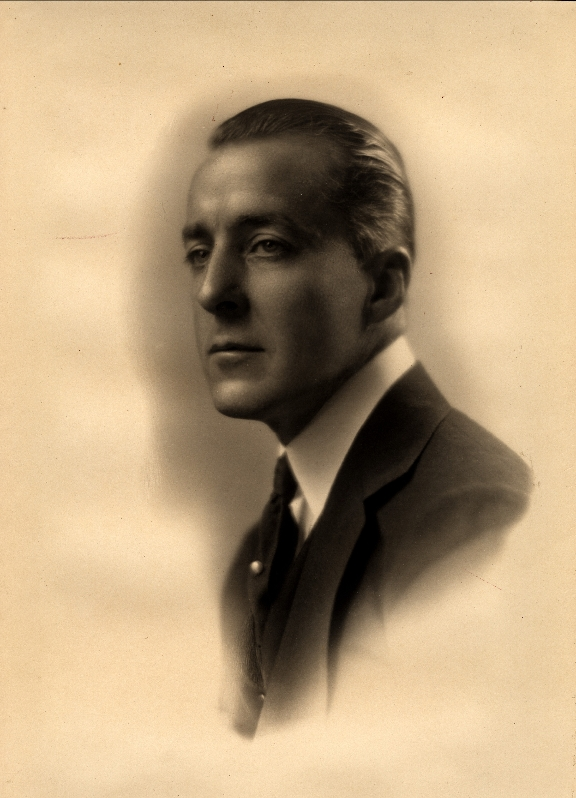 Edward Francis Hutton in 1920